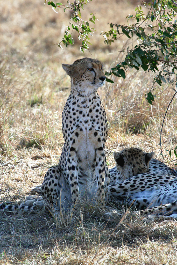 Taken with Canon 350D, 100-400mm f/4.5-5.6 L IS